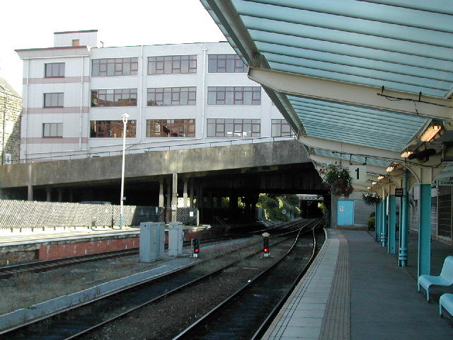 Harrogate Station. Harrogate railway station looking South